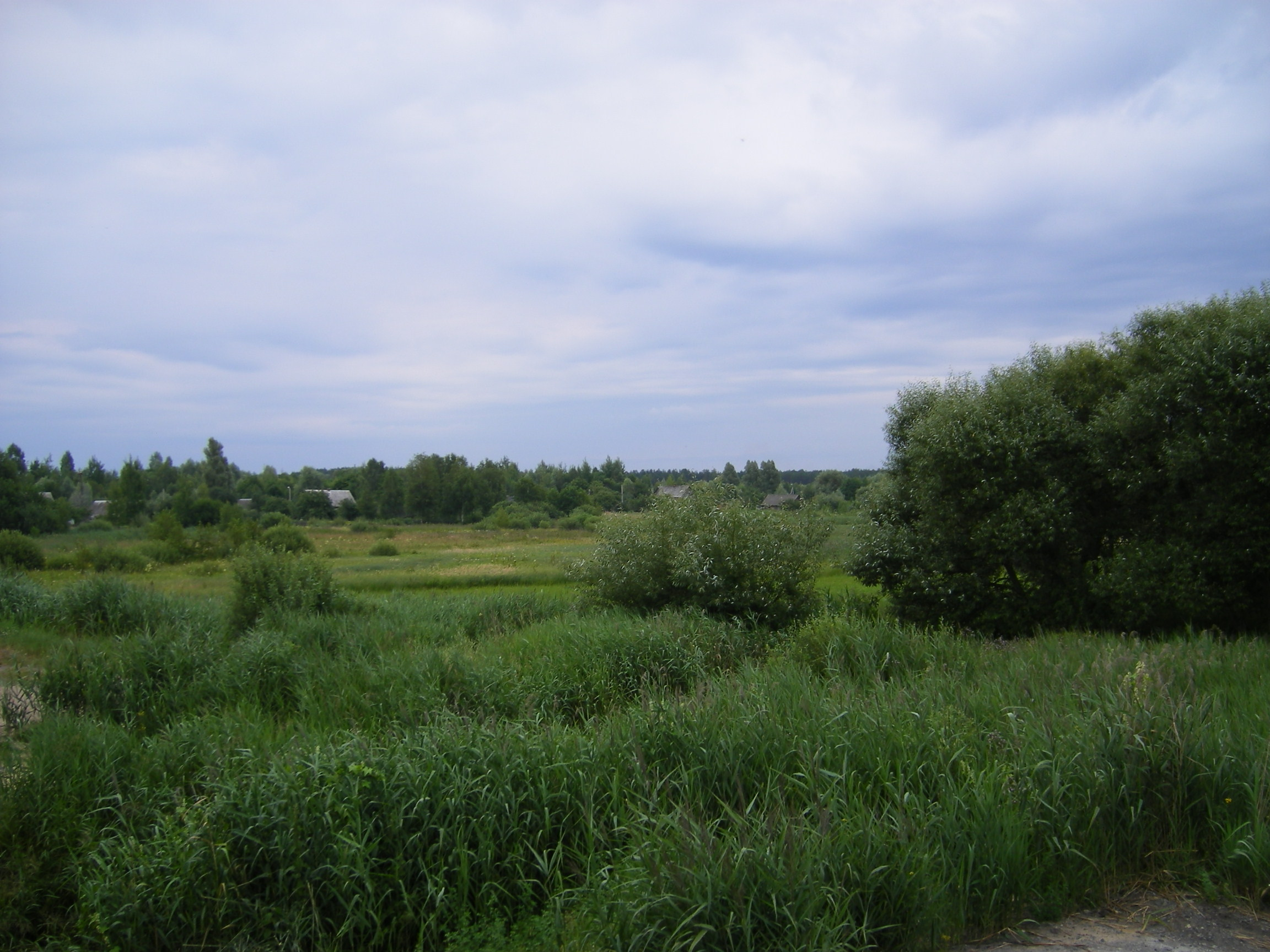 Landscape in Yelsk Raion